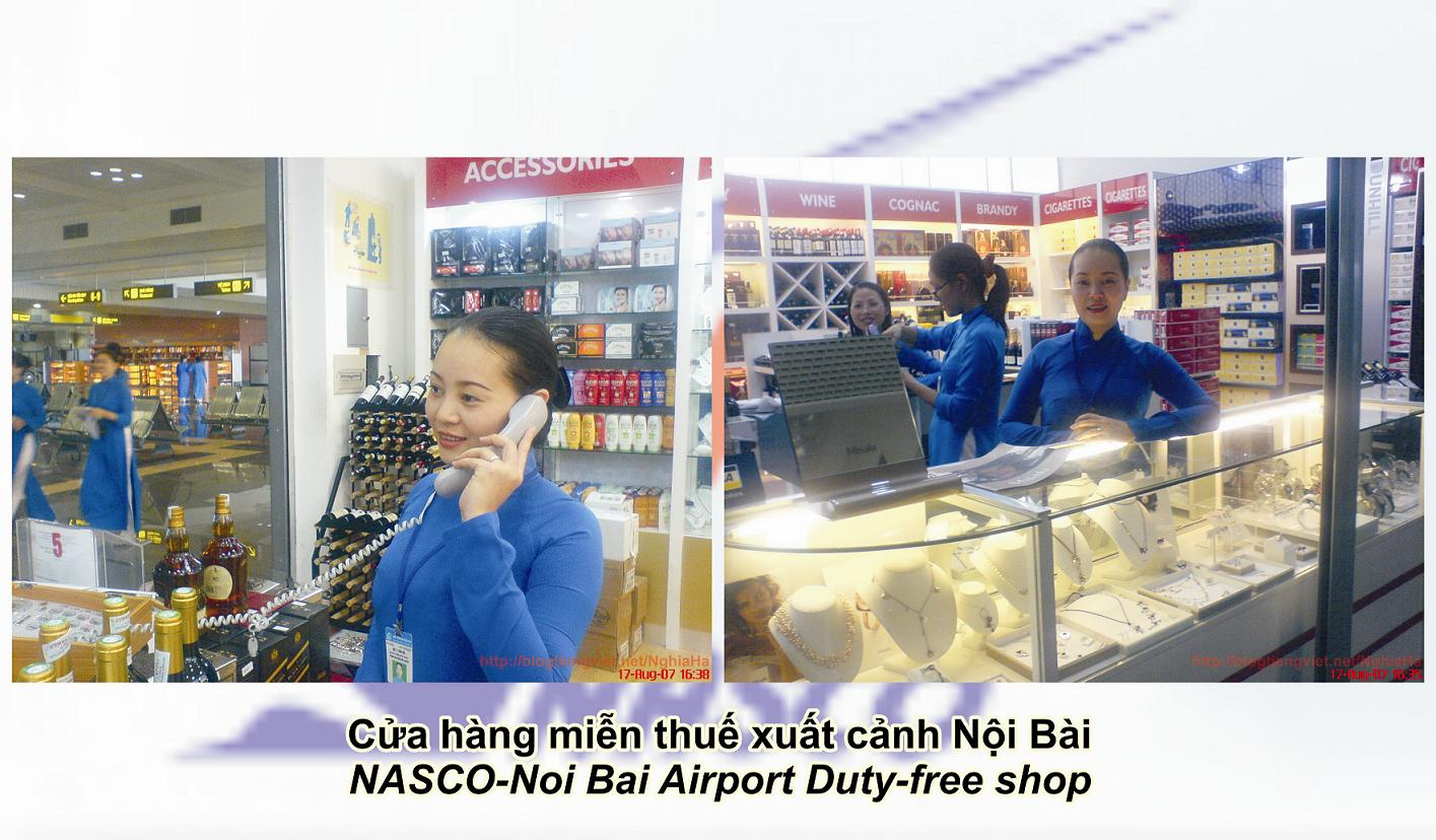 Ao dai Vietnam at NASCO-Noi Bai Airport Duty-free shop, where they sell cognac, brandy, cigarettes, wines and some others...